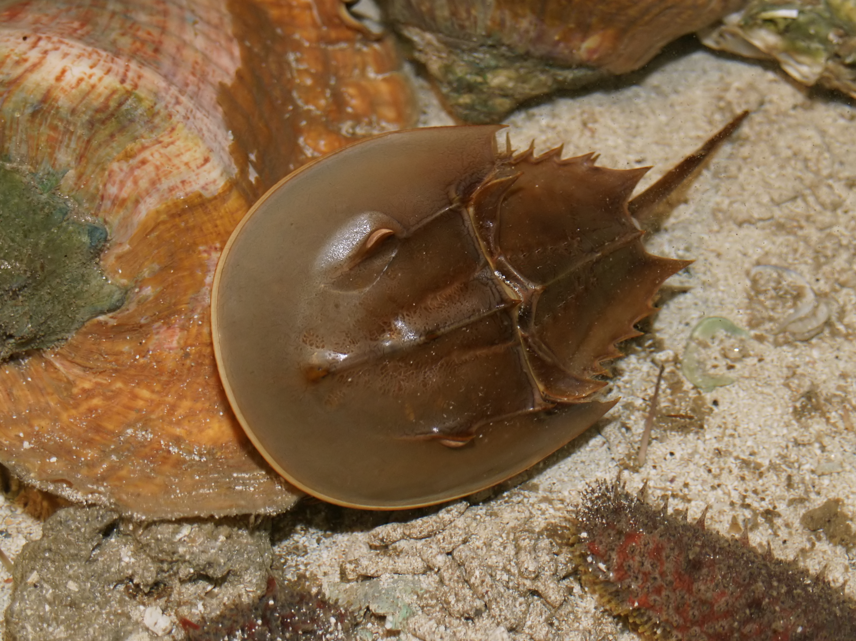 Atlantic horseshoe crab at St. Lucie County Marine Center in Fort Pierce, St. Lucie County, Florida, U.S.A.